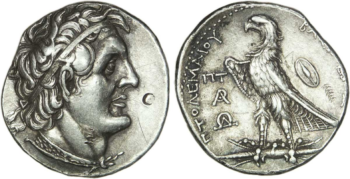 Tétradrachme du royaume Lagide à l'effigie de Ptolémée Date : c. 258/257-250/249 AC.